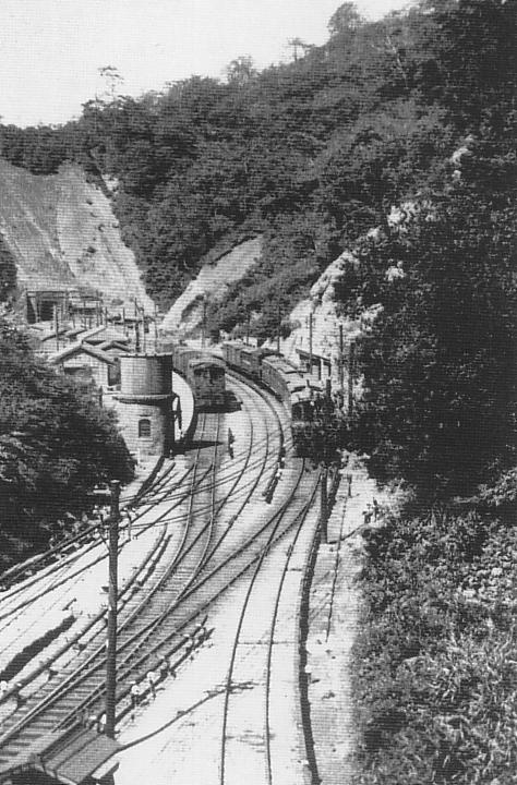 Kumanotaira Station in Meiji and Taisho eras